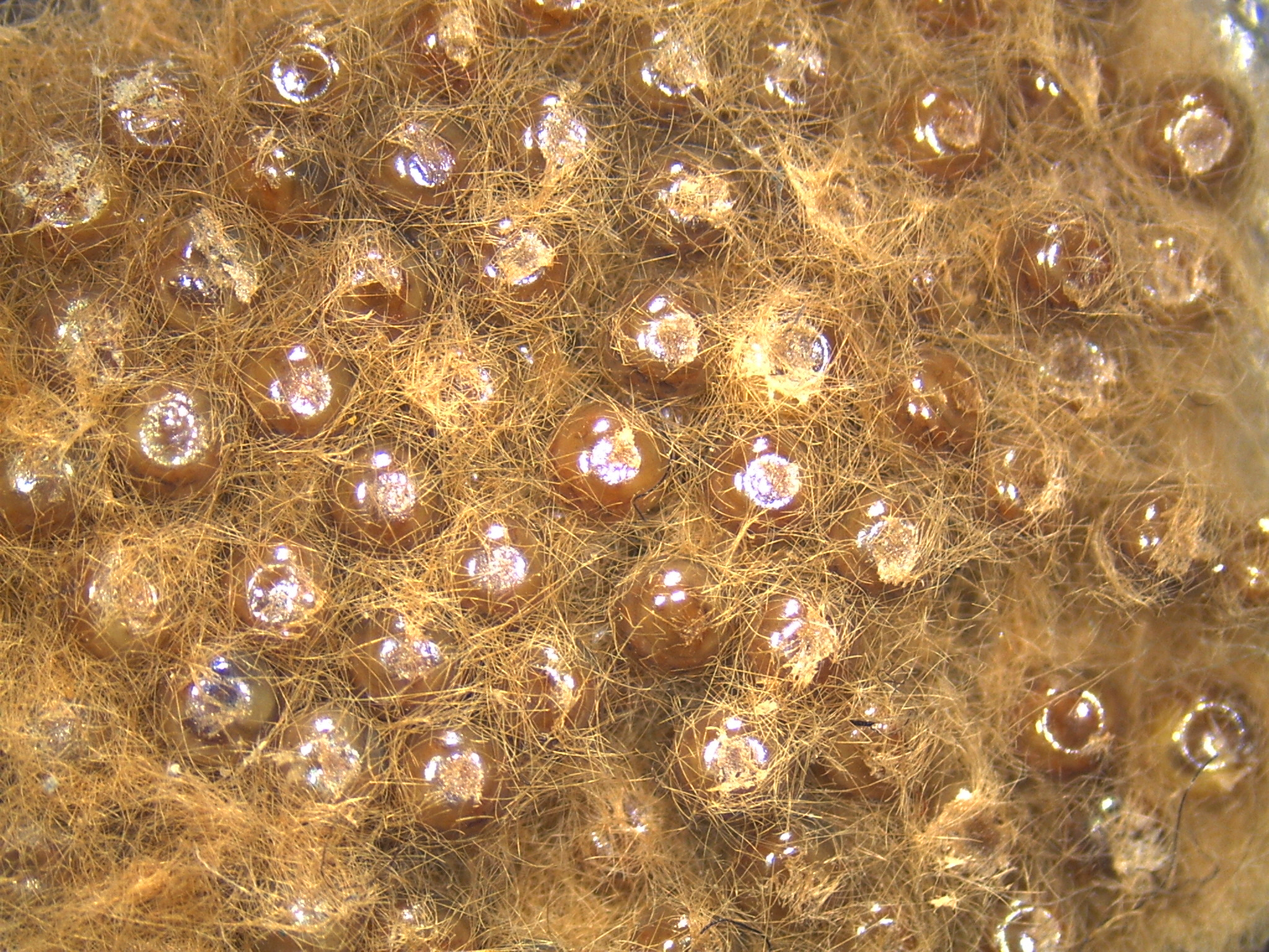 NEW ORLEANS, LA —U.S. Customs and Border Protection (CBP) Agriculture specialists assigned to New Orleans recently intercepted 17 separate Asian Gypsy Moth (AGM) masses on the same vessel. Agriculture specialists boarded a Panamanian bulk carrier, for inspection Aug. 1, as the vessel had made several port calls in Japan during the country’s AGM high risk season. Despite AGM masses being removed from the vessel while docked in Kobe, Japan in June, CBP agriculture specialists in New Orleans discovered a total of 17 new masses during three separate inspections. All masses were removed, and the infested areas were treated. The masses were submitted to the USDA entomologist, who confirmed Thursday that the egg masses were AGM. “Once again, our agriculture specialists used their experience and outstanding attention to detail to detect and mitigate what could have been a serious threat to our environment,” said Mark Choina, Acting Area Port of New Orleans Director. “CBP agriculture specialists work hard to safeguard America from harmful pests, and I couldn’t be prouder of the great job they do.” Although they may look harmless, the U.S. Department of Agriculture has called Asian Gypsy Moths, known scientifically Lymantria dispar, one of the most destructive threats to the environment. Each mass can contain hundreds of eggs that produce pests, which eat the foliage of more than 500 tree and shrub species. The AGM risk period for vessels entering the United States can last up to late September. Most recently, agriculture specialists in Baltimore discovered AGM masses on three vessels entering the Port of Baltimore. These vessels had also made port calls in Japan. The CBP New Orleans Office of Field Operations is located in the historic Custom House on Canal Street. Its area of operation includes ports in Louisiana, Mississippi, Arkansas, Tennessee, and Alabama. Photo by U.S. Customs and Border Protection